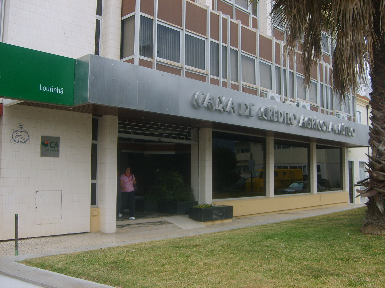 Bank Credito Agricola in Lourinhã